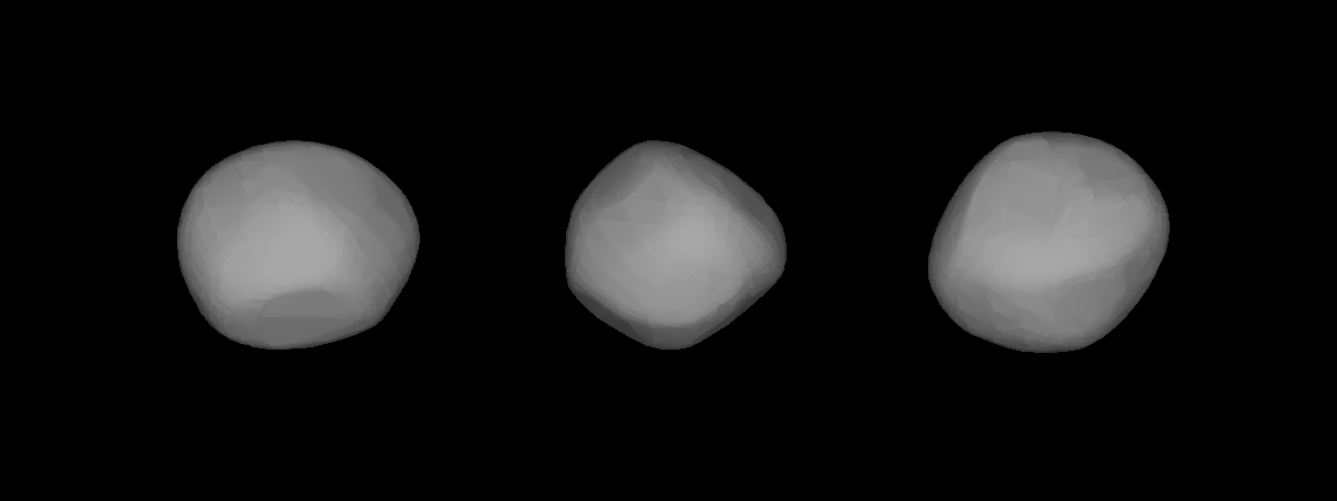 A three-dimensional model of 276 Adelheid that was computed using light curve inversion techniques.